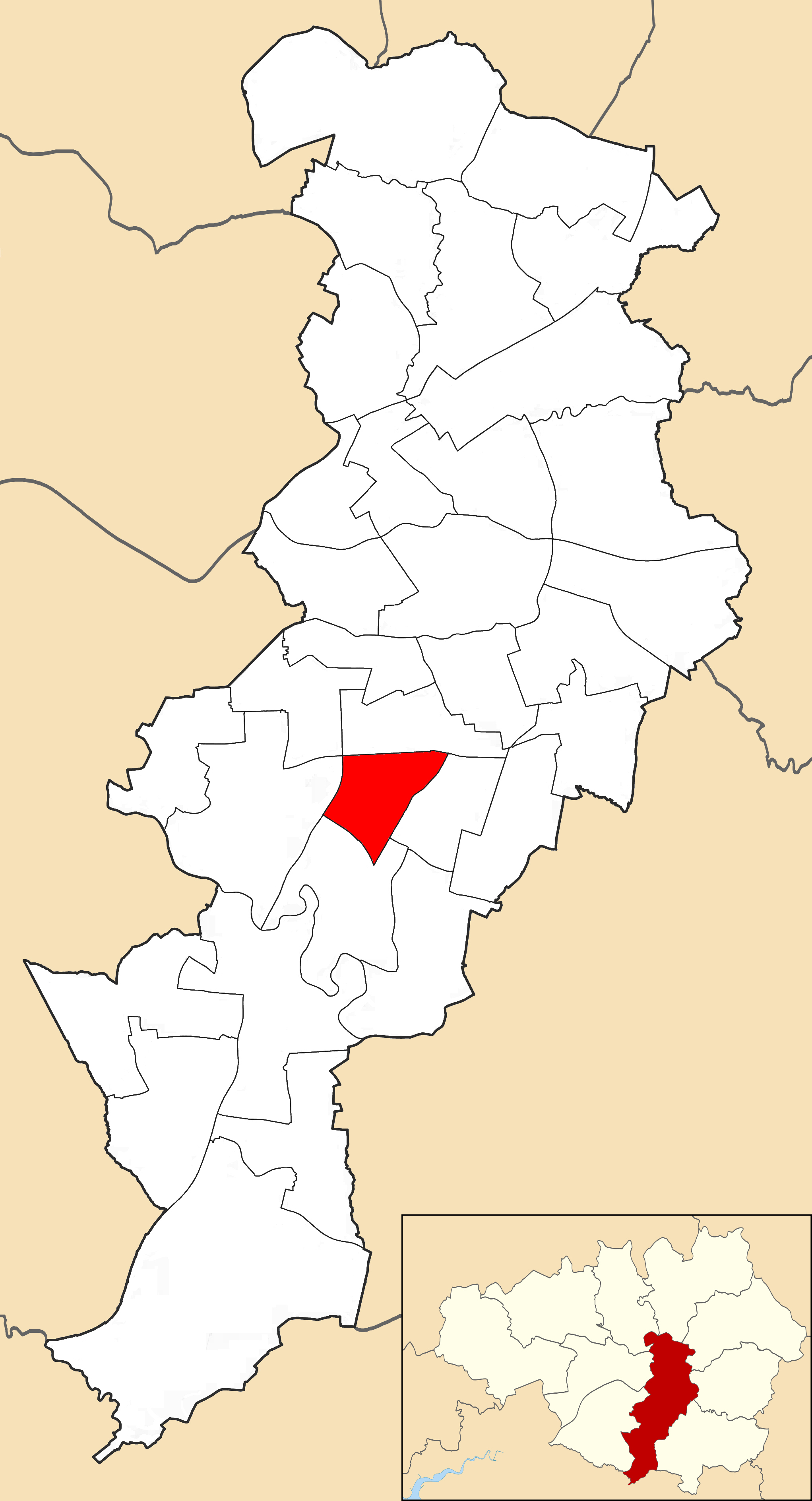 Map showing location of Old Moat ward within Manchester City Council.